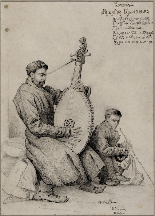 Portrait of Ukrainian kobzar Mykhailo Kravchenko by Opanas Slastion.